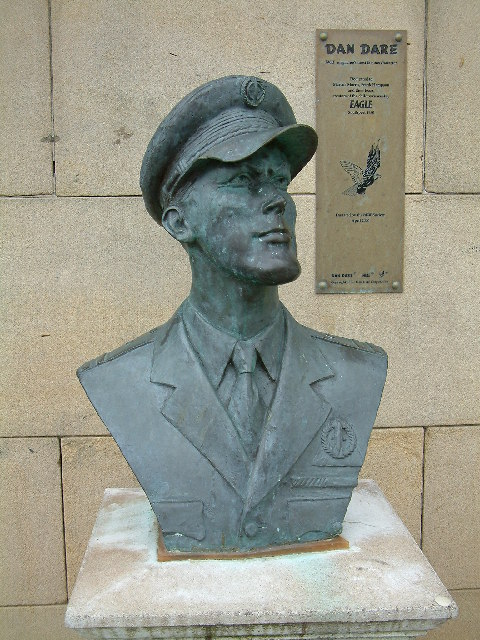 DAN DARE. Situated on the corner of Lord Street and Cambridge Arcade is this bronze bust. The Plaque reads:- DAN DARE, Eagle Magzine's most famous character, dedicated to, Marcus Morris, Frank Hampson, creators of the children's weekly. Eagle Southport. Donated by the Eagle Society 2000.